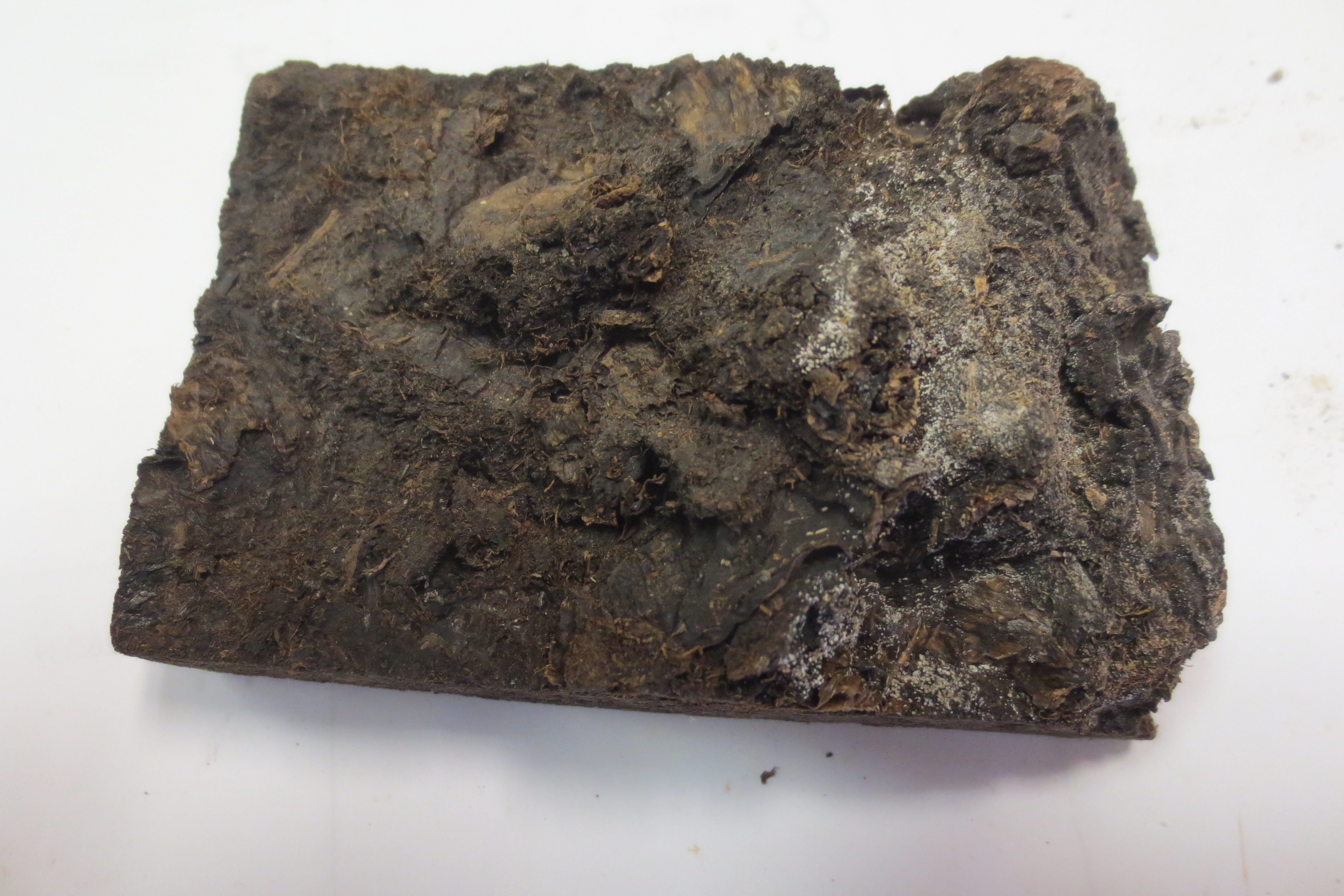 Glastonbury